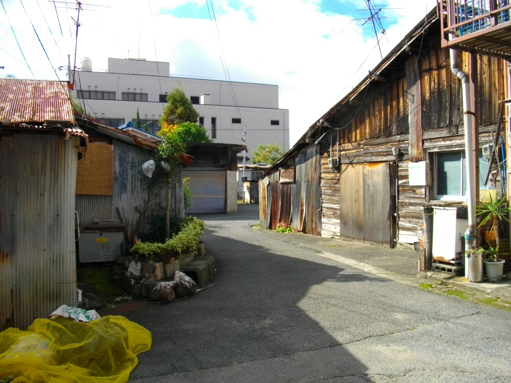 Uji-Utoro district